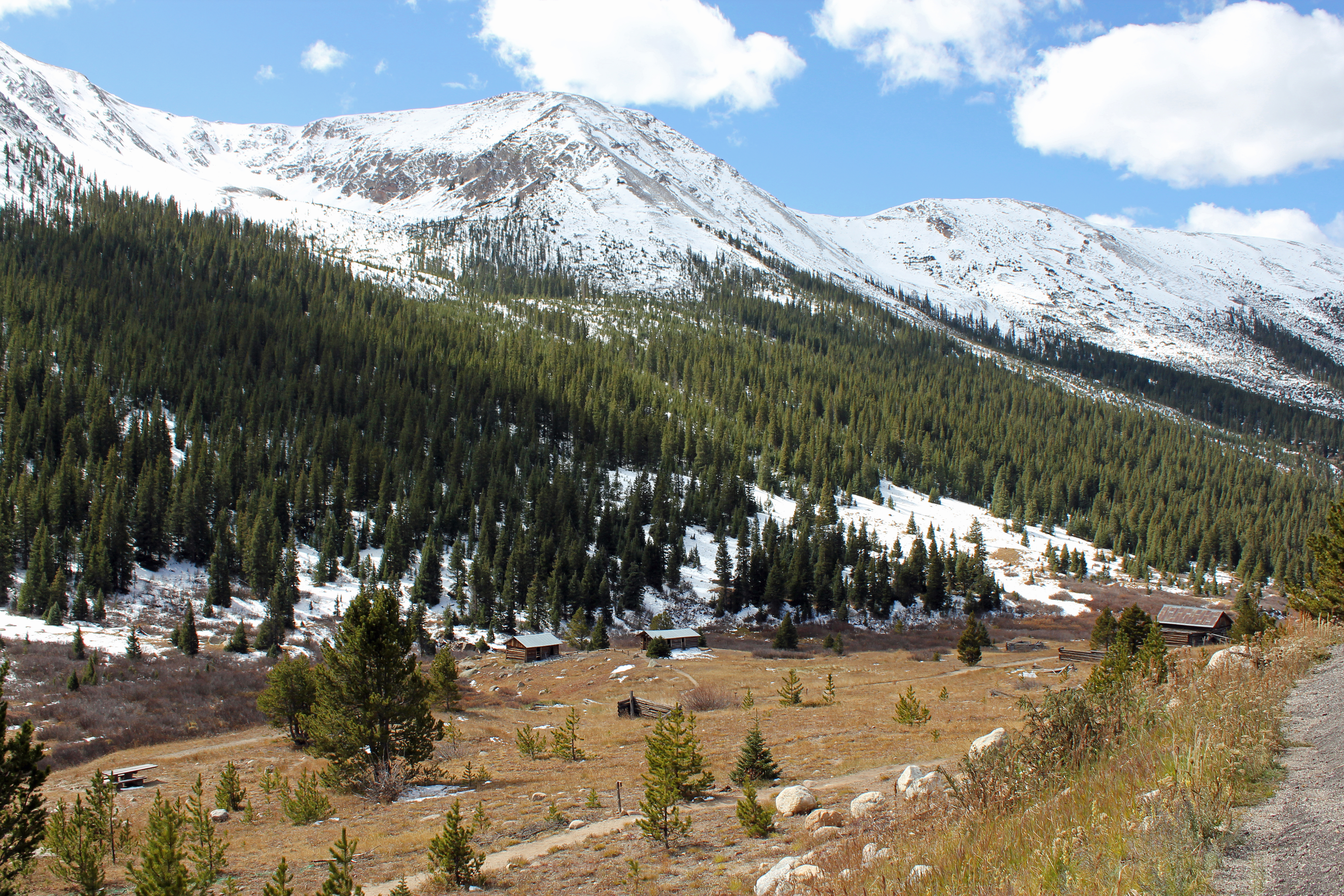 The ghost town of Independence, Colorado. The town is located on Colorado Highway 82 in Pitkin County. Independence is listed on the National Register of Historic Places.